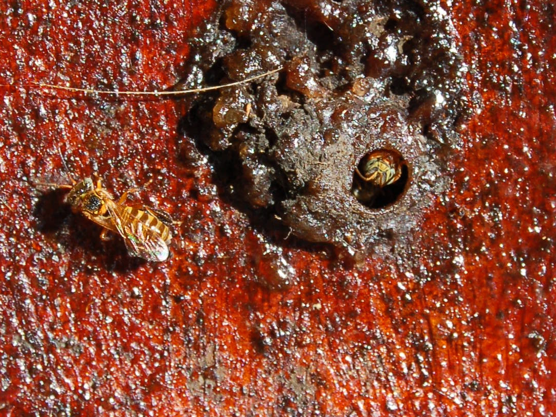 A Frieseomelitta varia guard bee standing next to the entrance hole of the colony.